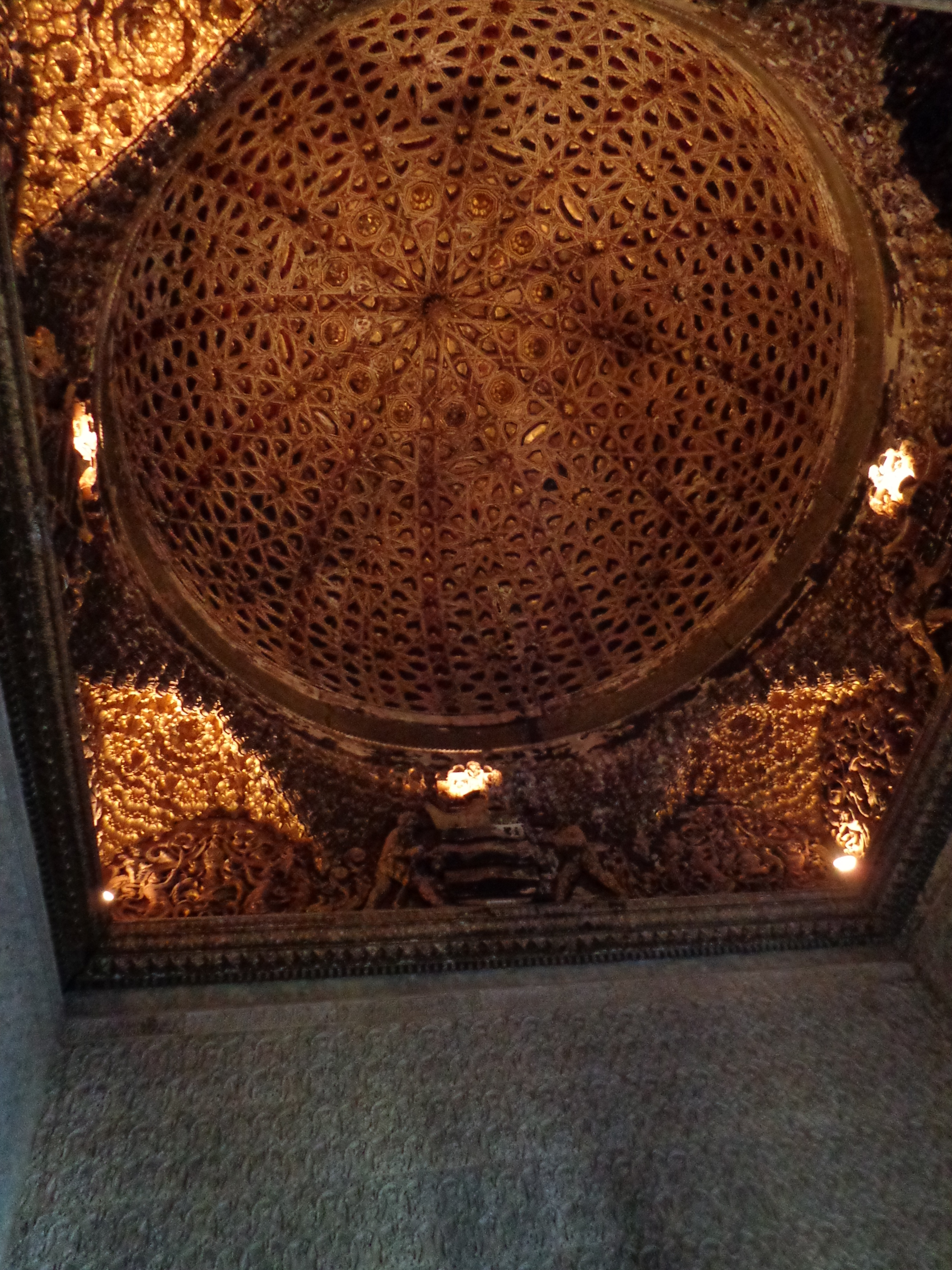 Casa de Pilatos, Seville